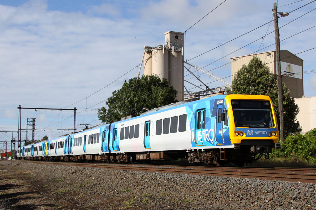 X'Trapolis 100 train (863M-1632T-864M-897M-1649T-898M) in the Metro Trains Melbourne livery, the first Melbourne train to receive it, displayed at the public launch MTM launch